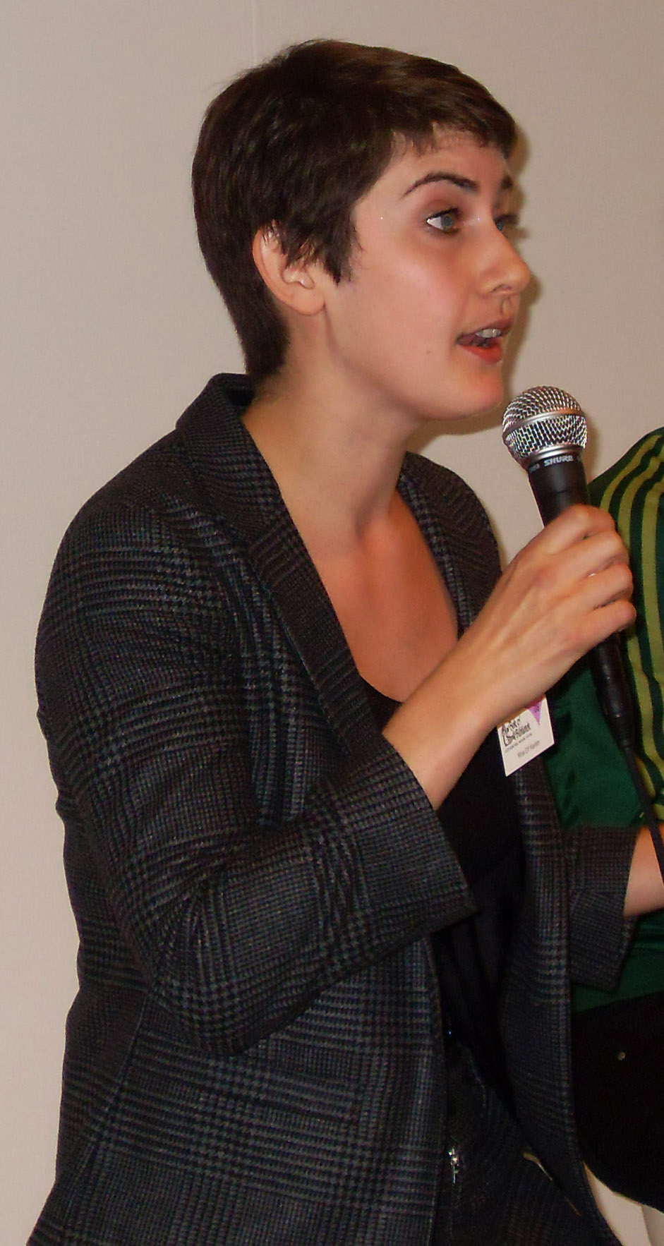 Swedish author and actress Moa Elf Karlén at Gothenburg bookfair 2008